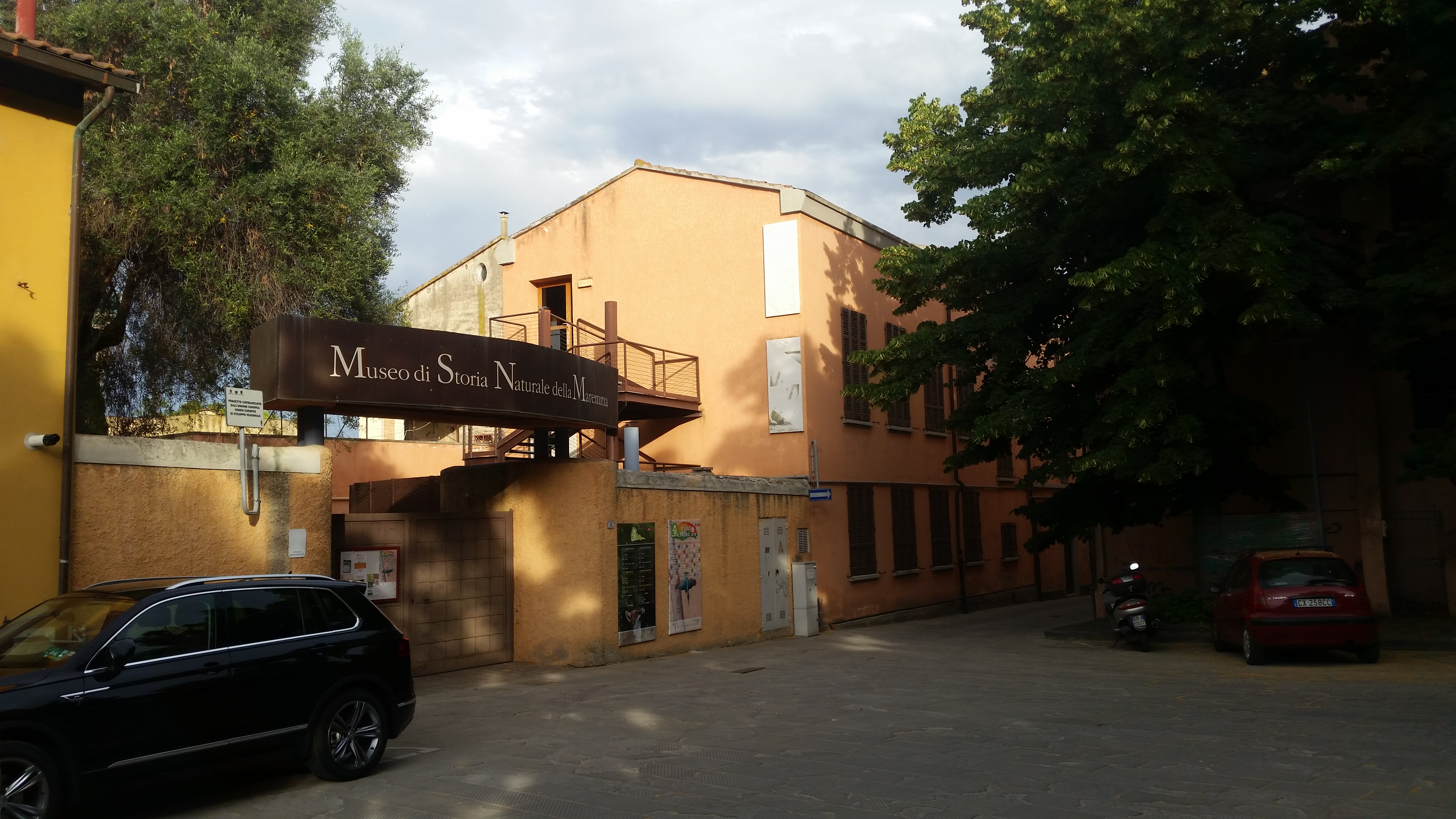 Museum of Natural History in Grosseto, Tuscany